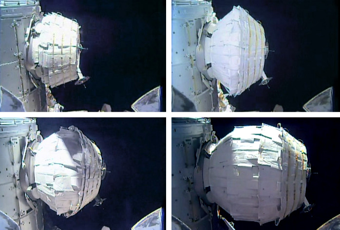 Series of photos showing the expansion of the Bigelow Expandable Activity Module to its full size on May 28, 2016.